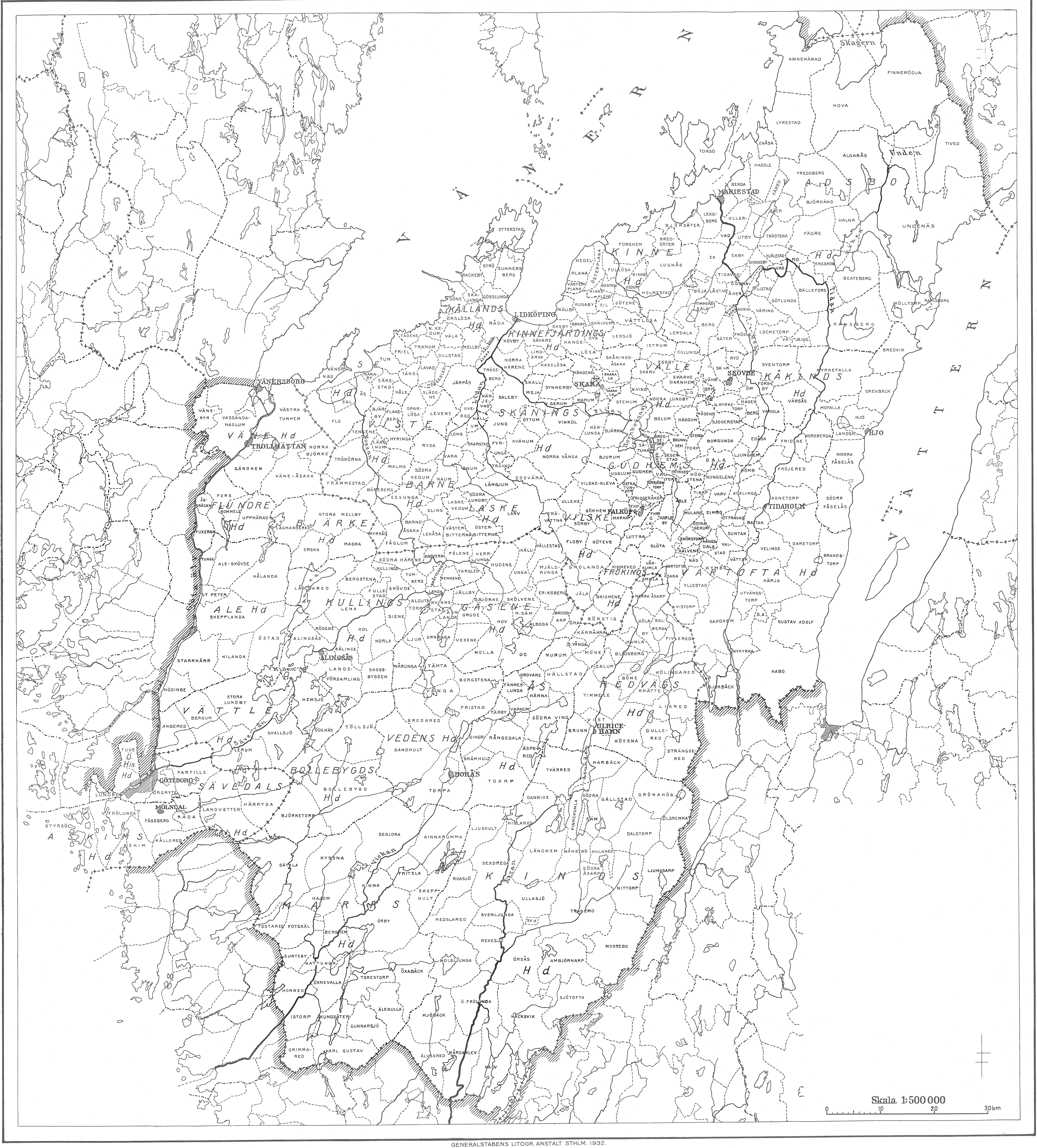 Map over the hundreds and parishes of Västergötland, Sweden. The map is printed in 1932. Scanned by Gunnar Creutz 2010.